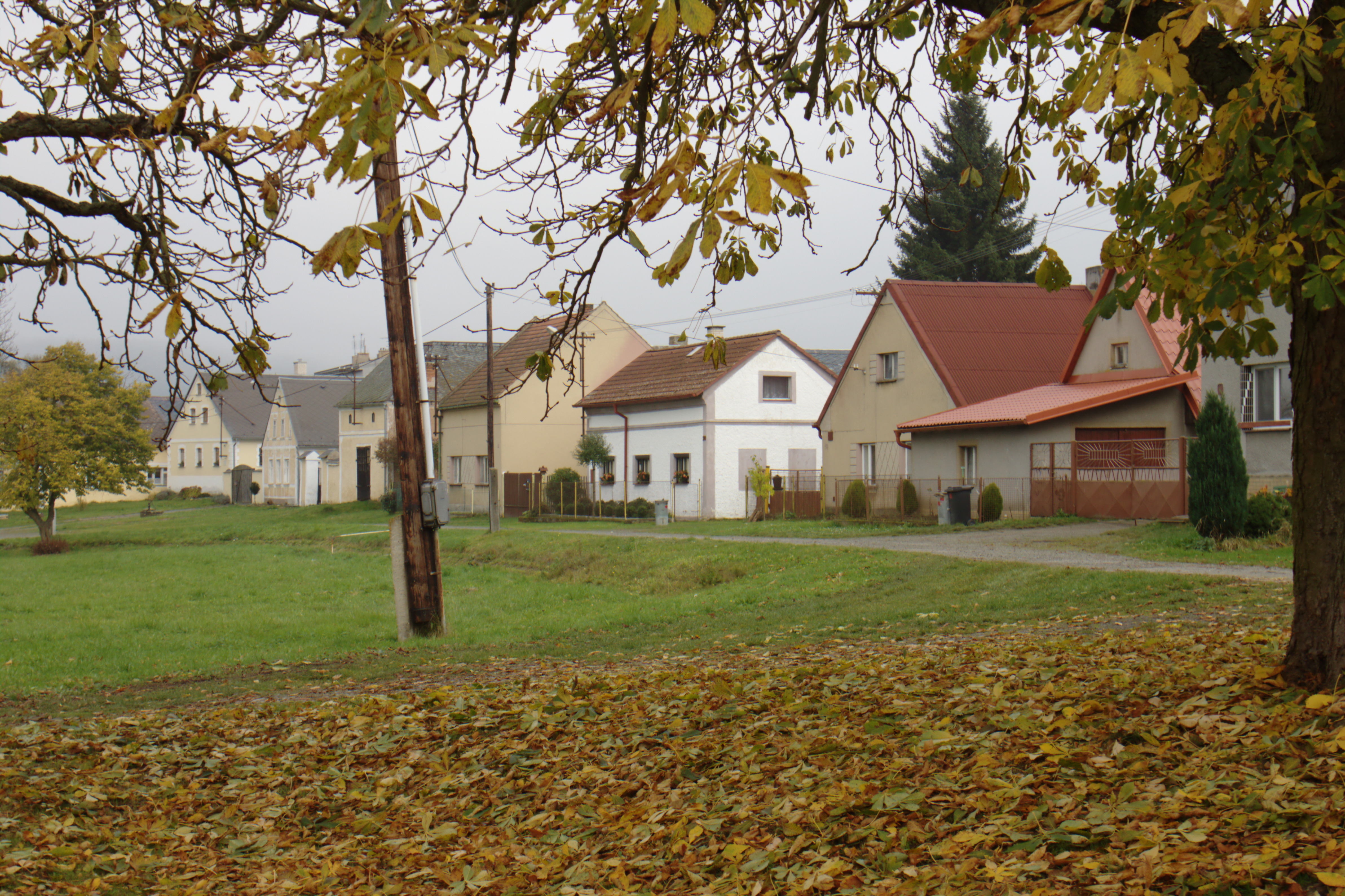 Buildings at a common in the village of Mezí, Plzeň Region, CZ